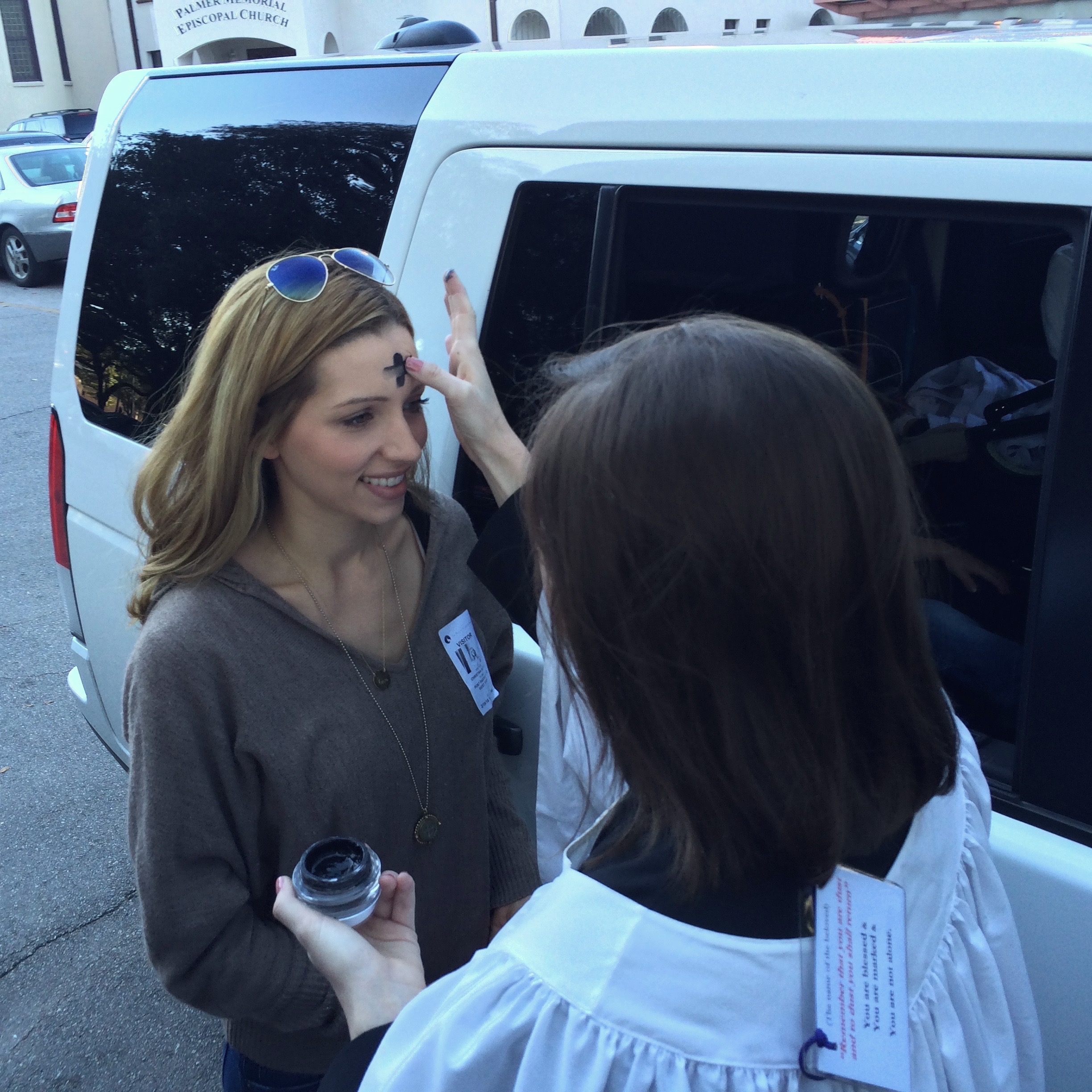 Palmer Memorial Episcopal Church's Ashes to Go station on Ash Wednesday in 2015. Allison Marek is pictured distributing ashes to a mother on her way to the Texas Medical Center in Houston.